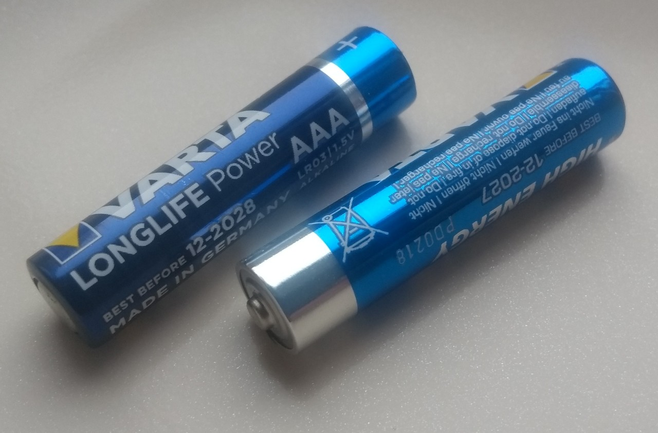 Two AAA batteries.